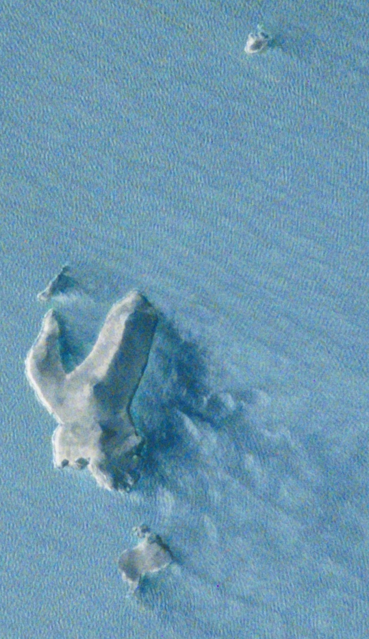 Mission: ISS002 Roll: E Frame: 8503 Mission ID on the Film or image: ISS002 Country or Geographic Name: GREECE Features: ASTAKIDHA ISLANDS, GLINT, WAVES Center Point Latitude: 35.9 Center Point Longitude: 26.8 (Negative numbers indicate south for latitude and west for longitude) : Image Science and Analysis Laboratory, NASA-Johnson Space Center. "The Gateway to Astronaut Photography of Earth." : (10/03/2009) . :Send questions or comments to the NASA Responsible Official at :Curator: Earth Sciences Web Team :Notices: Web Accessibility and Policy Notices, NASA Web Privacy Policy